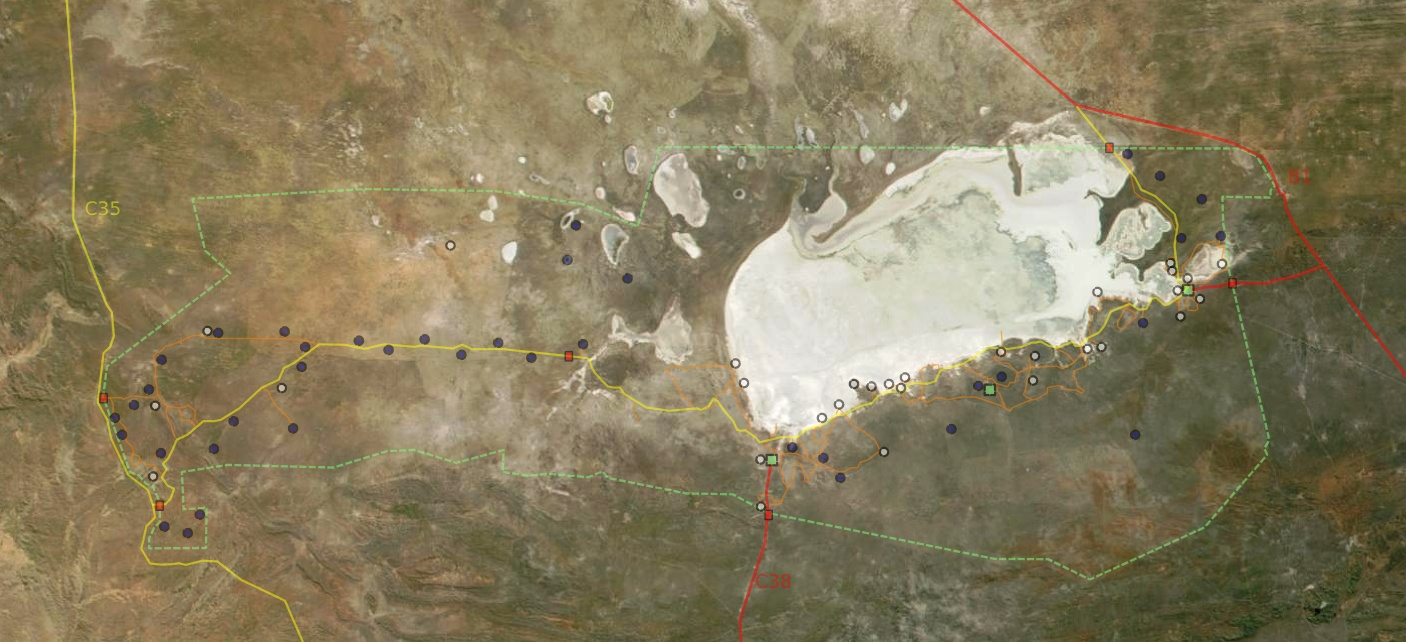 Satellite picture of Etosha park with borders, roads, waterpoints, camps and gates red line: road with black top yellow line: gravel road red square: park gate green square: camp blue circle: man-made waterpoint white circle: natural waterpoint